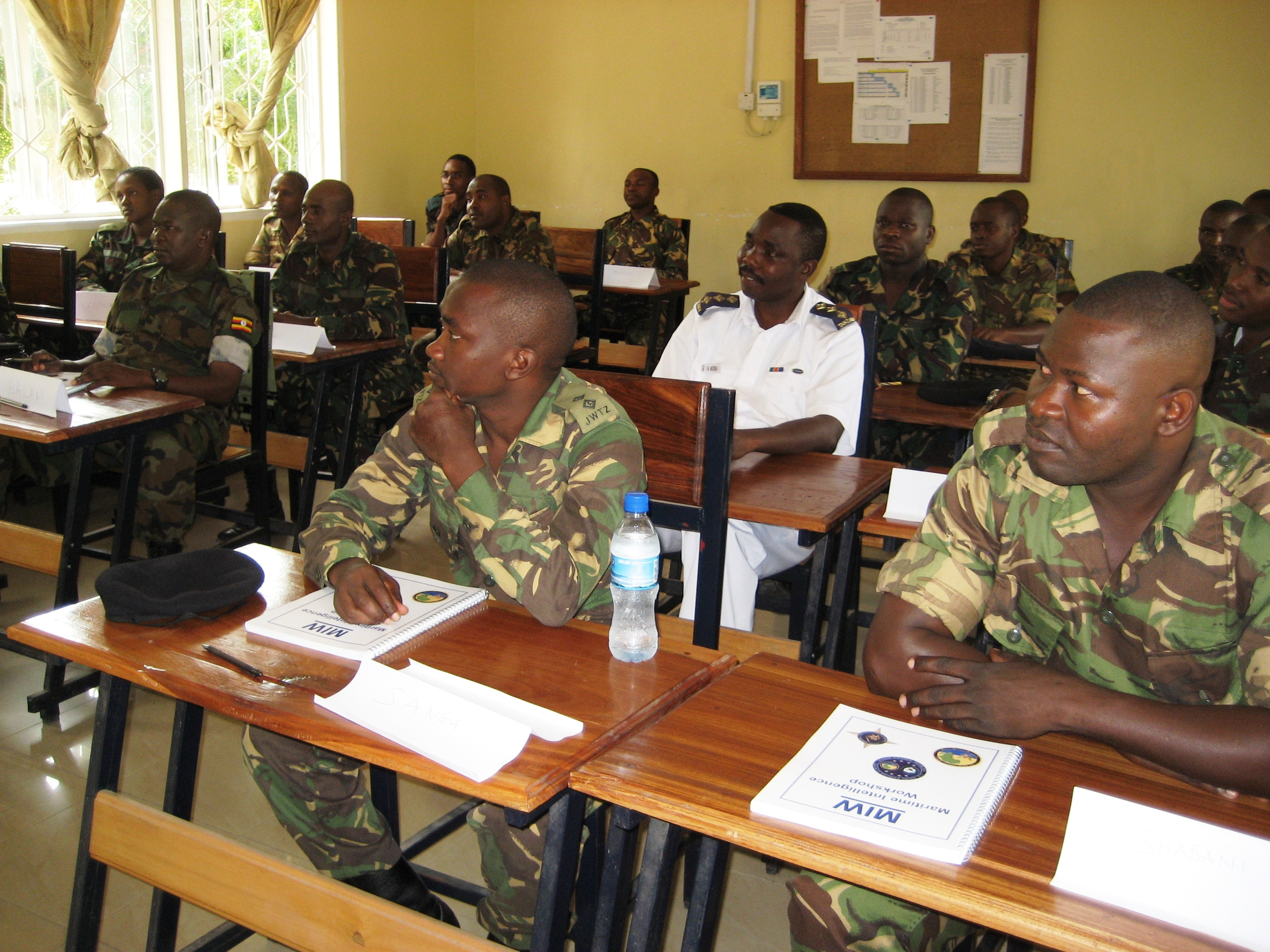 DAR ES SALAAM, Tanzania (July 25, 2011) Students from the Tanzanian and Ugandan navies listen to a maritime intelligence class lecture offered as part of the Africa Partnership Station (APS) East Tanzania Hub at the Tanzania Naval Training School. APS is an international security cooperation initiative, facilitated by Commander, U.S. Naval Forces Europe-Africa, aimed at strengthening global maritime partnerships through training and collaborative activities in order to improve maritime safety and security in Africa. (U.S. Navy photo by Lt. Cmdr. Suzanna Brugler/Released)